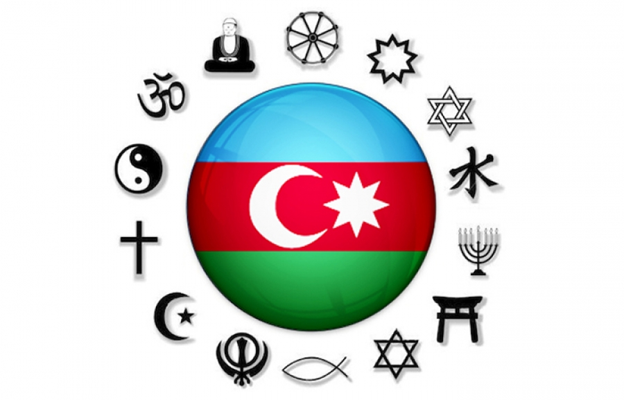 Azerbaijani Multiculturalism and Religion in Azerbaijan